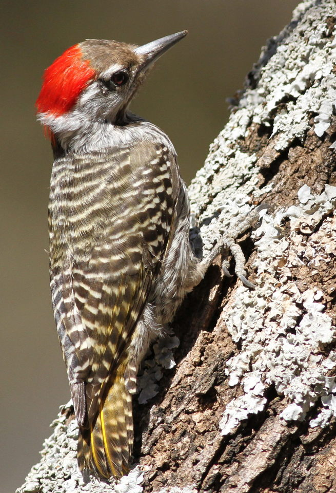 Cardinal Woodpecker - MALE, Dendropicos fuscescens at Pilanesberg National Park, Northwest Province, South Africa